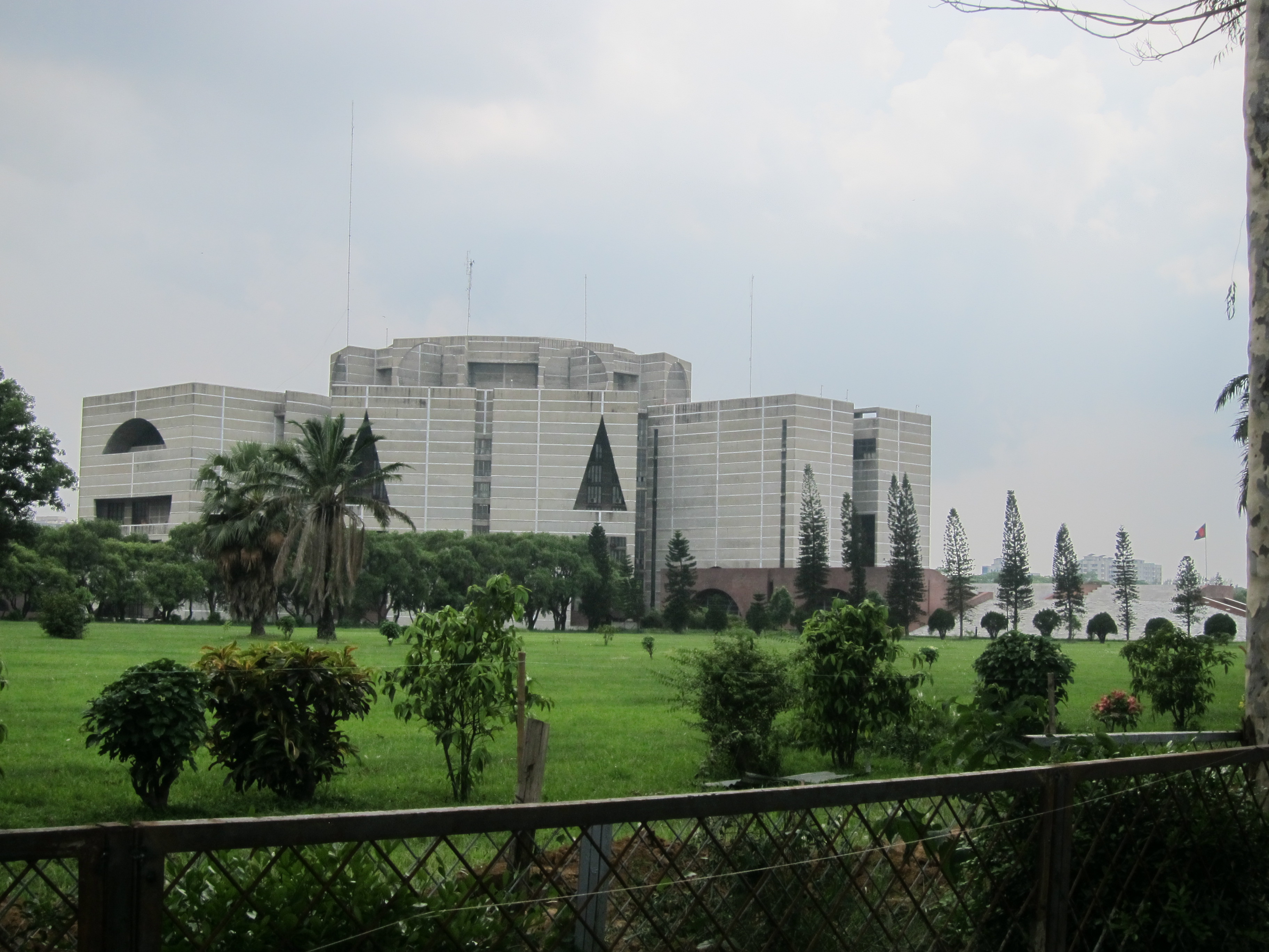 National Assembly of Bangladesh, Dhaka